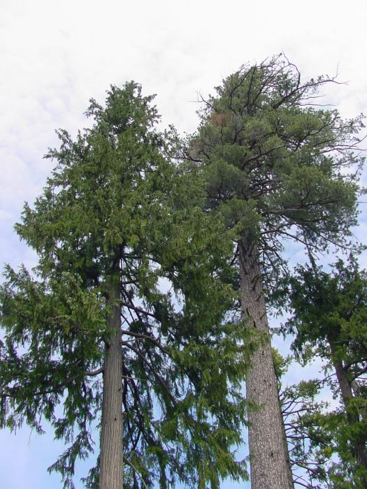 Lawson's Cypress Chamaecyparis lawsoniana (left) and Sugar Pine Pinus lambertiana (right). Bill Creek, BLM Medford District, Oregon